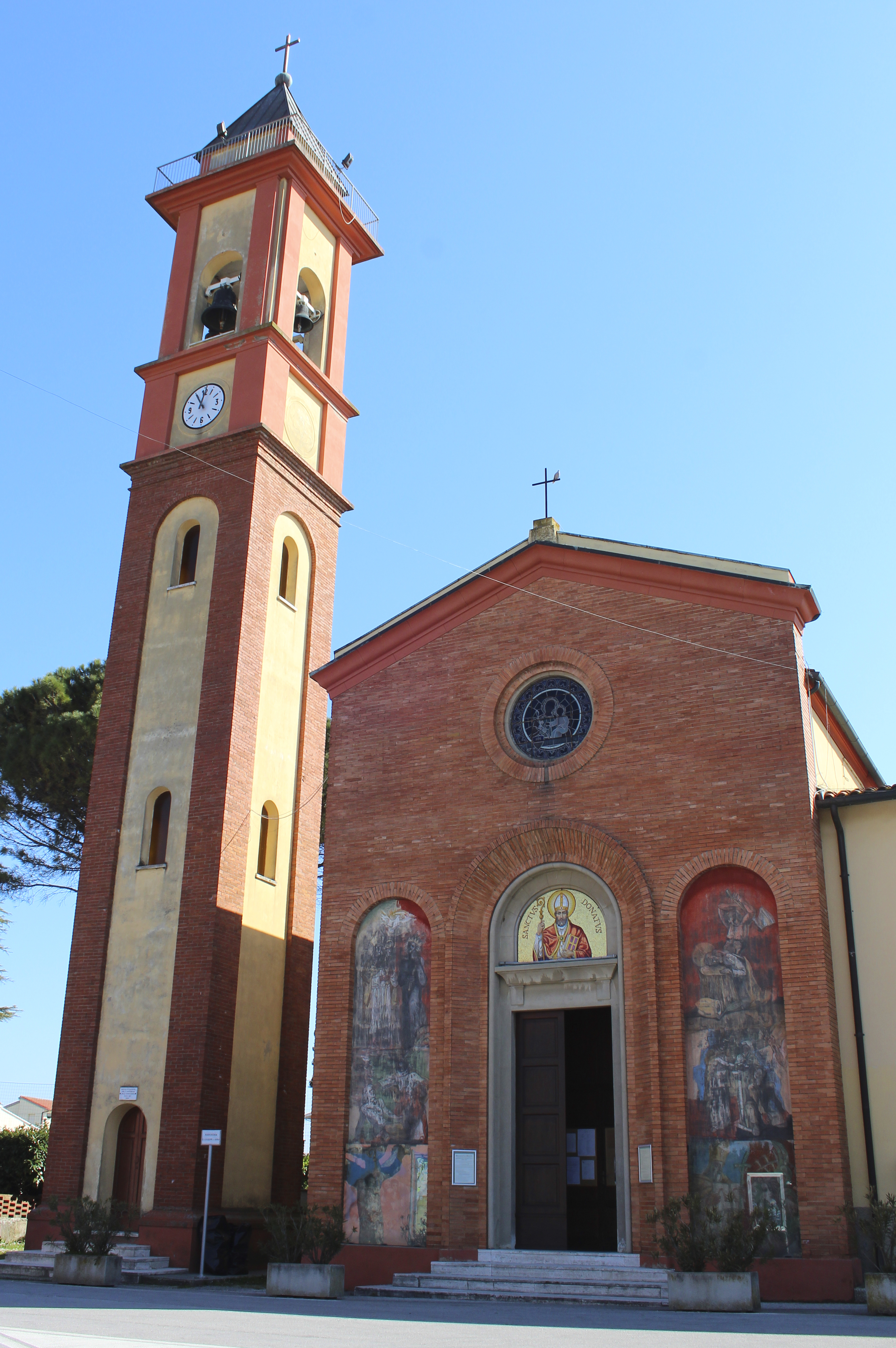 Church Santi Giuseppe e Anna, San Donato, hamlet of Santa Maria a Monte, Province of Pisa, Tuscany, Italy